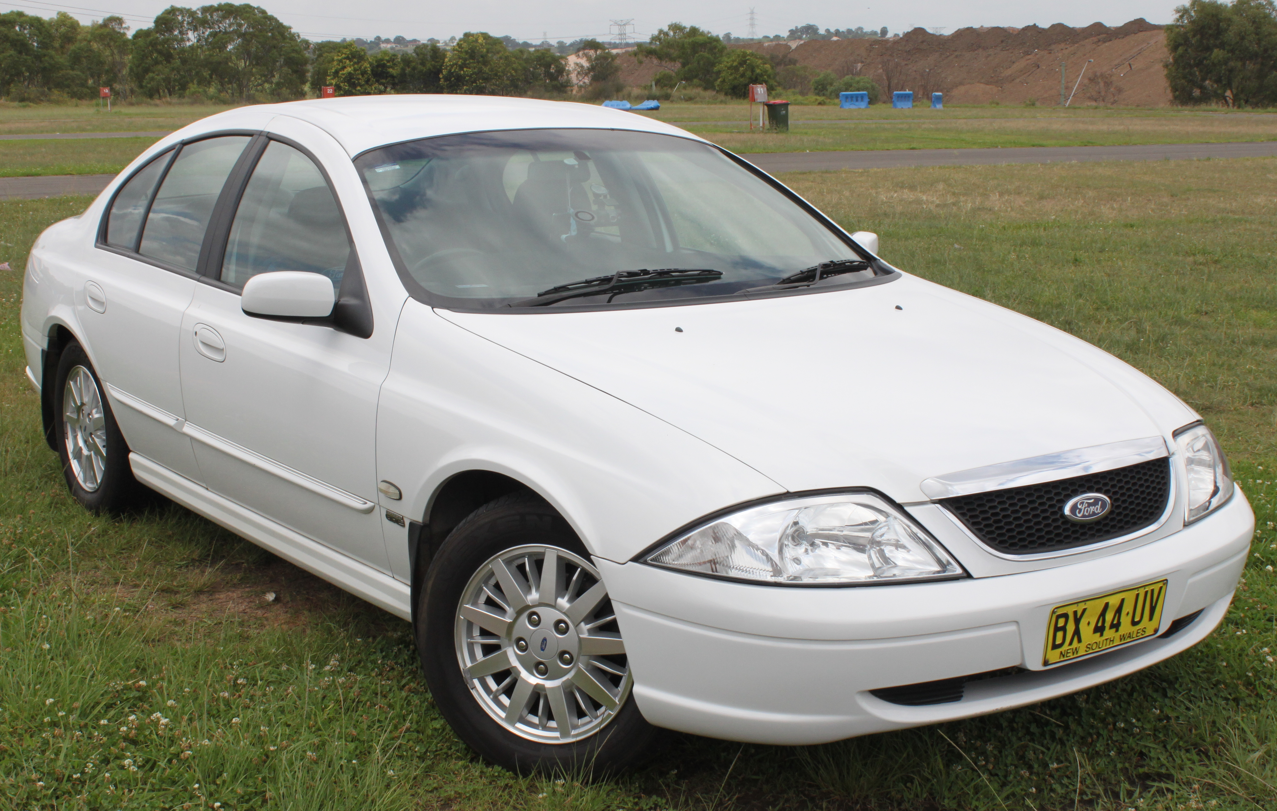 All Ford Day, Eastern Creek NSW, November 2015